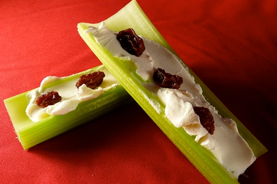 Ants on a log (cream cheese variation) - snack. Most people use peanut butter.